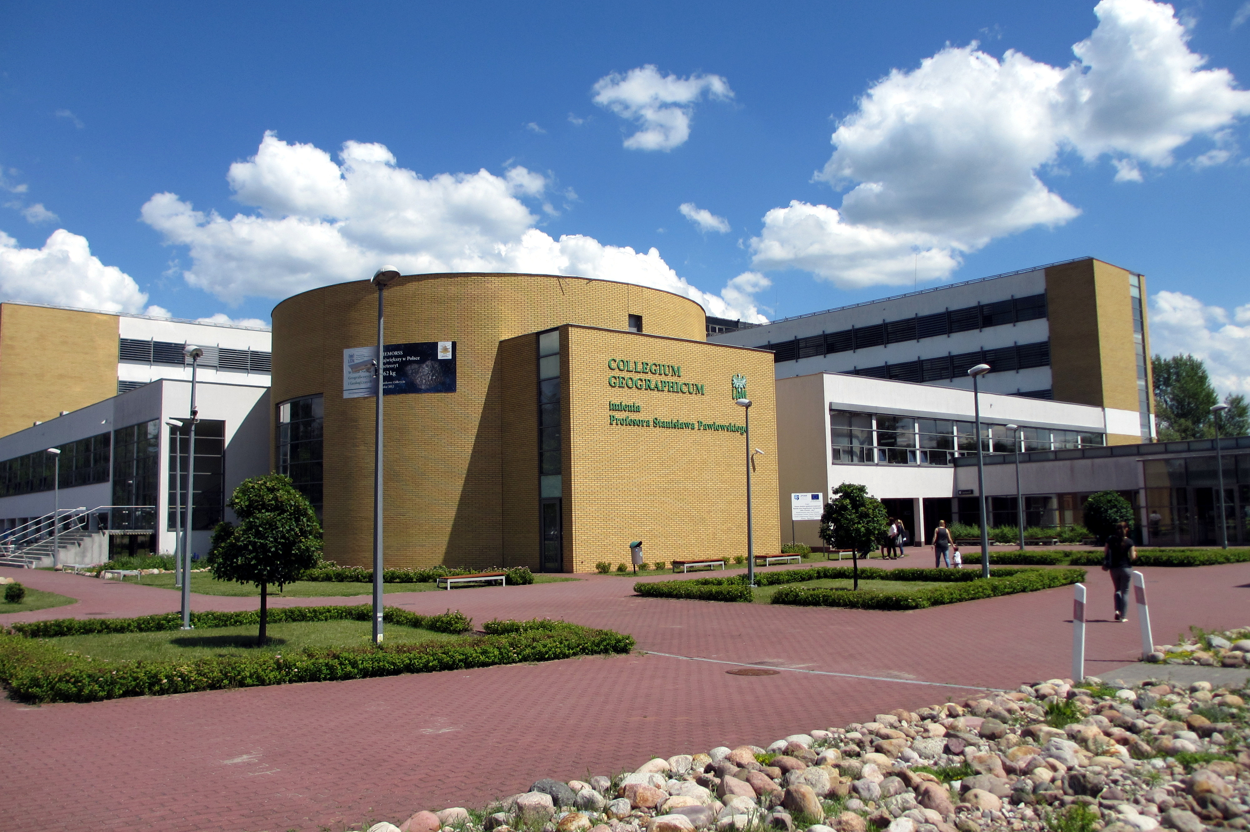 Collegium Geographicum in Poznań, Poland - Google Maps - Google Earth